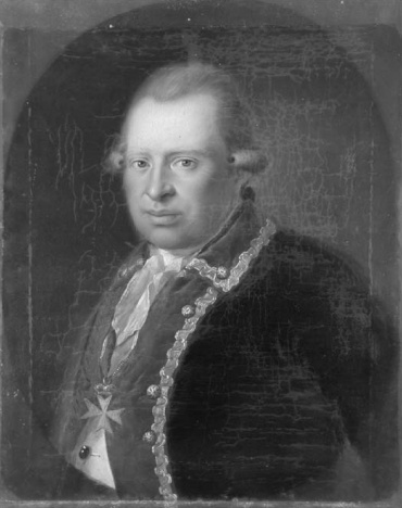 Oil on canvas portrait of Ludwig von Wurmb, a lieutenant general from Hesse-Kassel in the Napoleonic Wars. Von Wurmb also served in the Seven Years' War, the American War of Independence, and the French Revolutionary Wars.